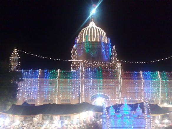 Darbar in Sial Sharif of Hazrat Muhammad Shams-ud-Din Sialvi(Pir Sial)-one of the most famous saints in Pakistani Punjab.